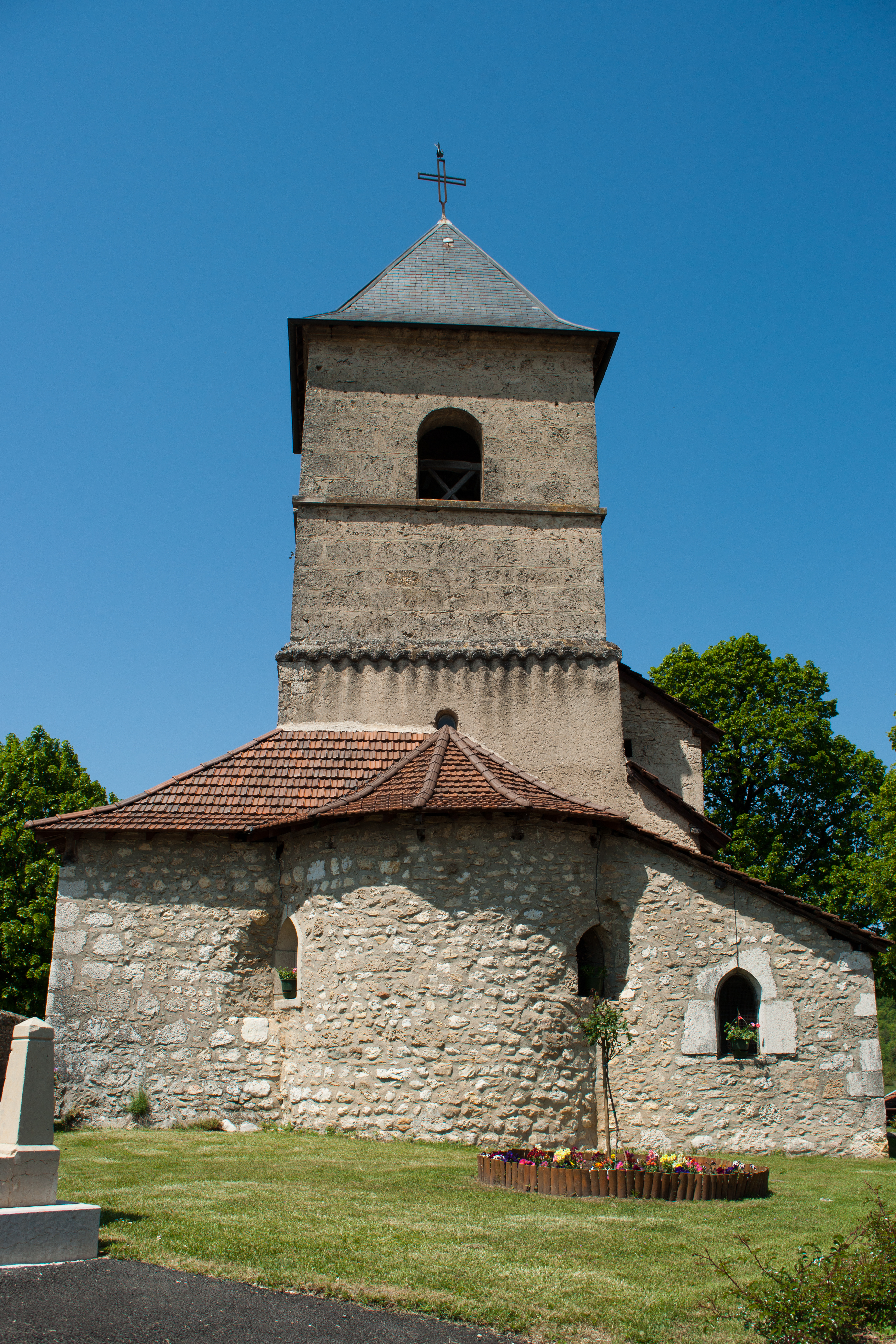 Church in Seillonnaz, France